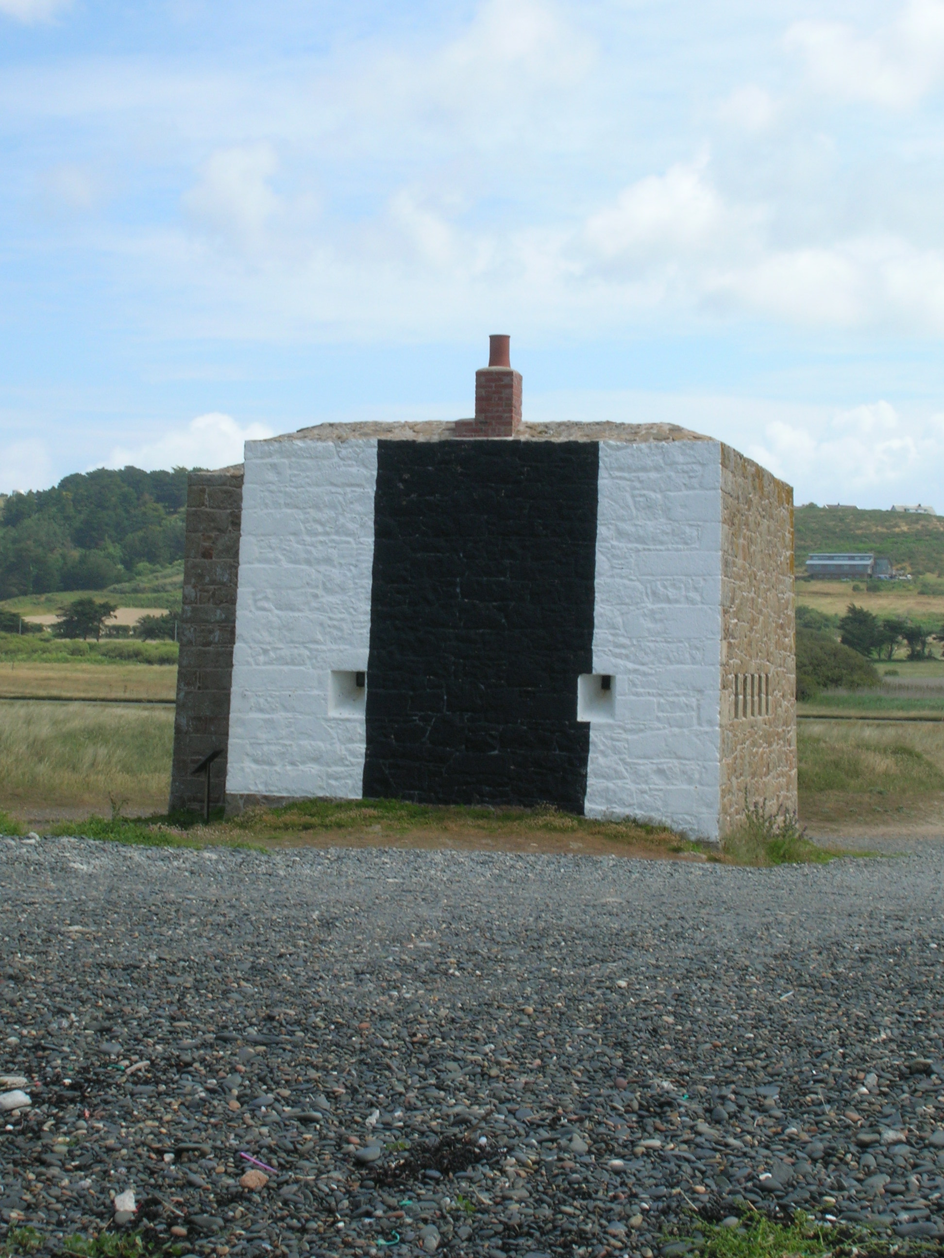 Coastal fortification in Jersey, Channel Islands